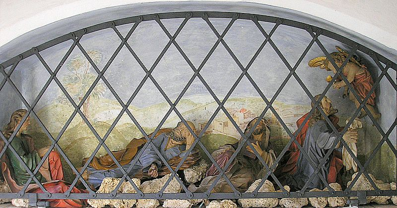 Parish church of the Holy Cross (Oberfinning, Municipality Finning, Landkreis Landsberg am Lech, Upper Bavaria, Germany). Garden of Gethsemane (Lorenz Luidl, ca. 1686)